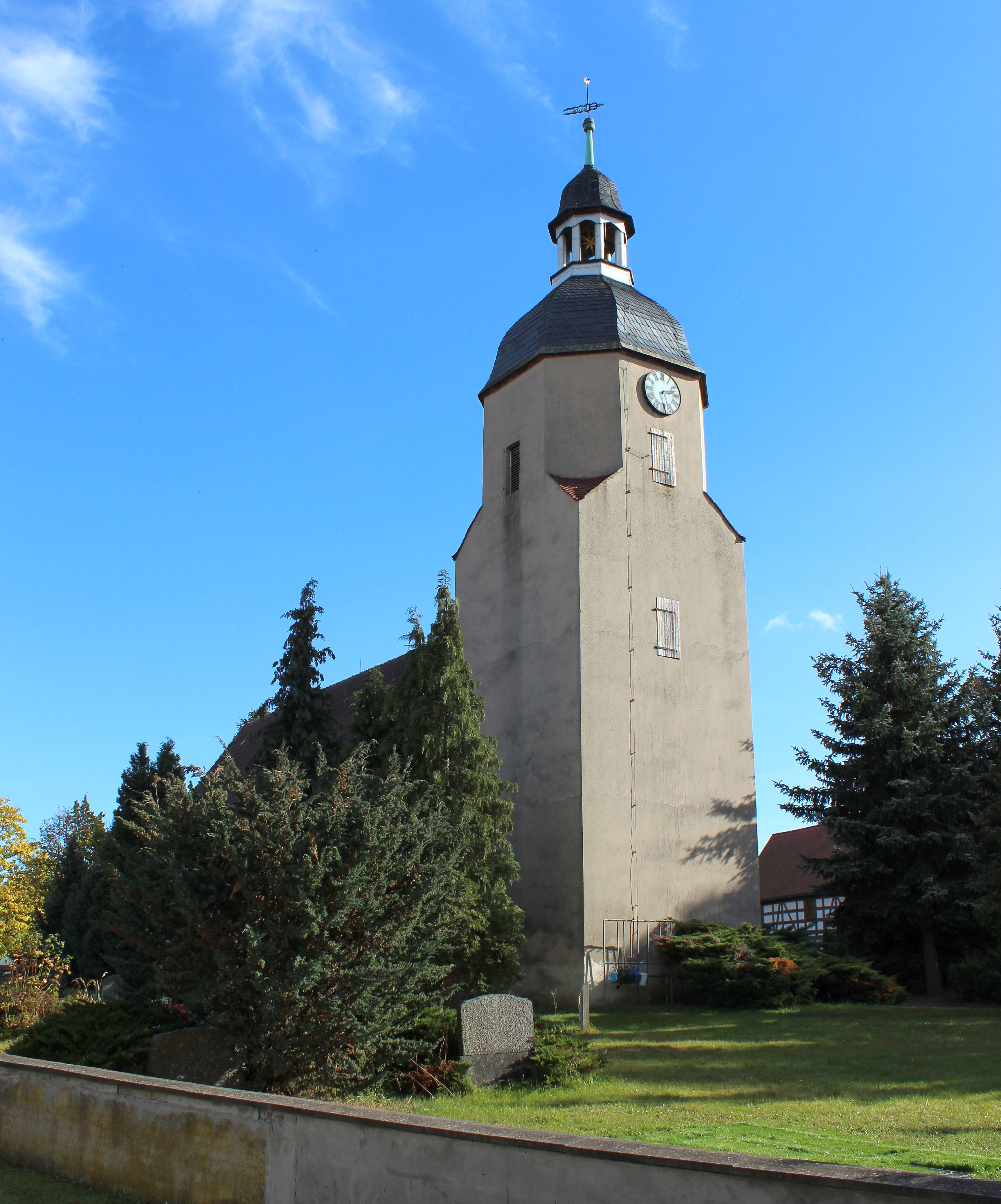 Schmerkendorf church (Falkenberg/Elster, Elbe-Elster district, Brandenburg)